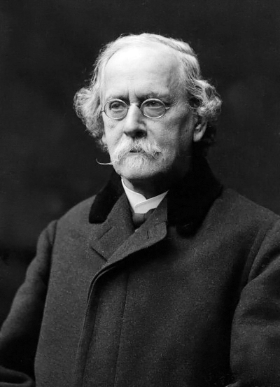 Ernst Gustav Kraatz – German entomologist. (1831 - 1909) Photographic portrait Source: Library and Documentation Service Museum of Toulouse